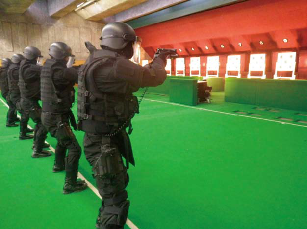 Hostage rescue operators of the Kumamoto Prefectural Police firing their Beretta 92 in a shooting range.